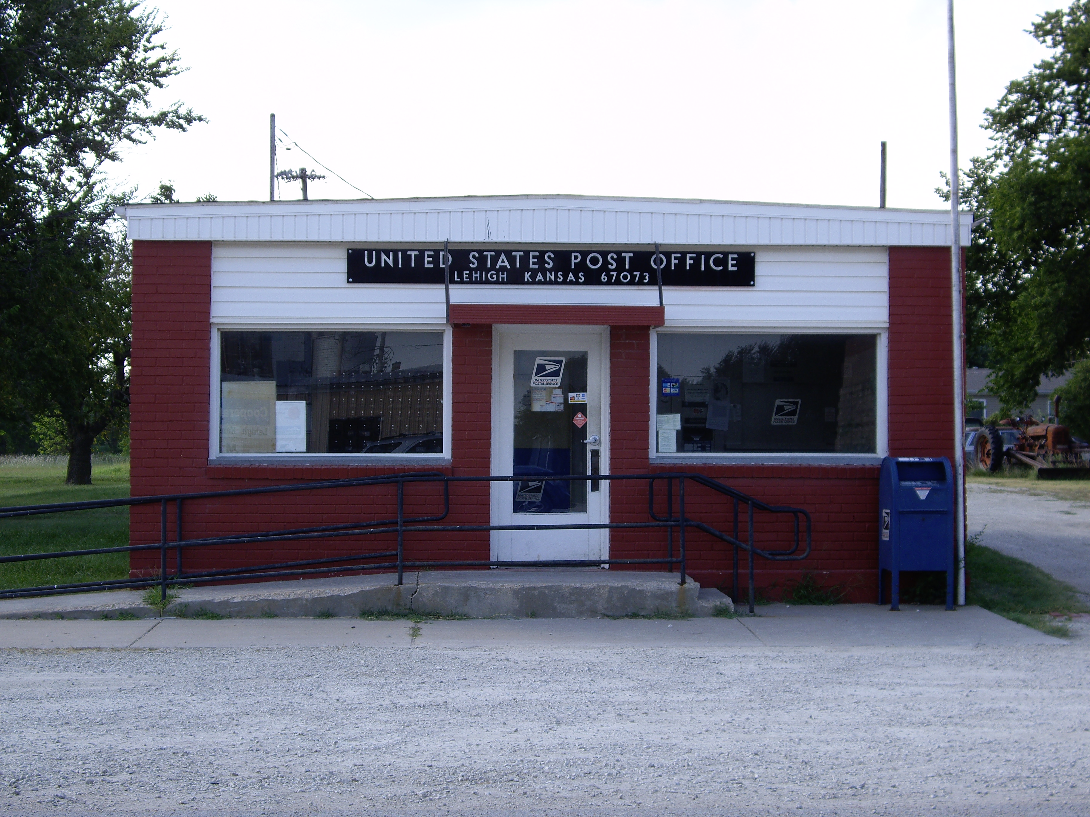 Lehigh U.S. Post Office, 112 W Main St, Lehigh, Kansas, 67073, USA. Looking northwest. Photo by Steve Meirowsky on August 7, 2010.